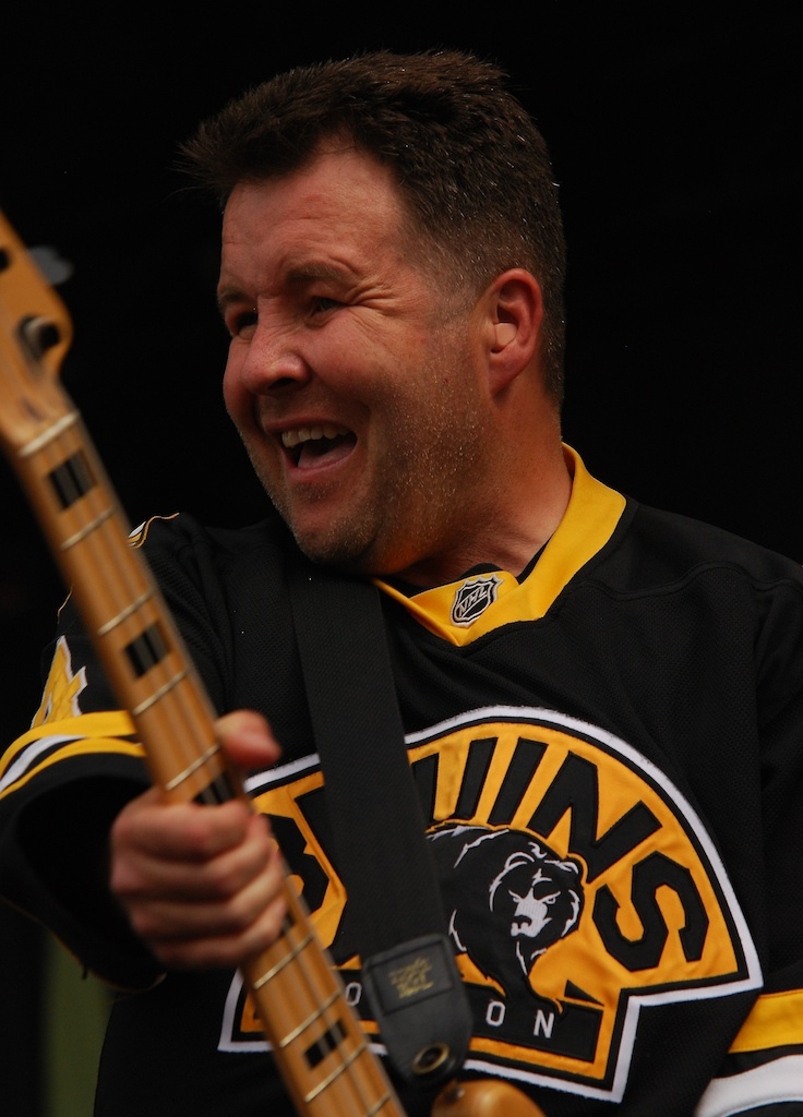 Dropkick Murphys at the 2011 Cisco Ottawa Bluesfest.